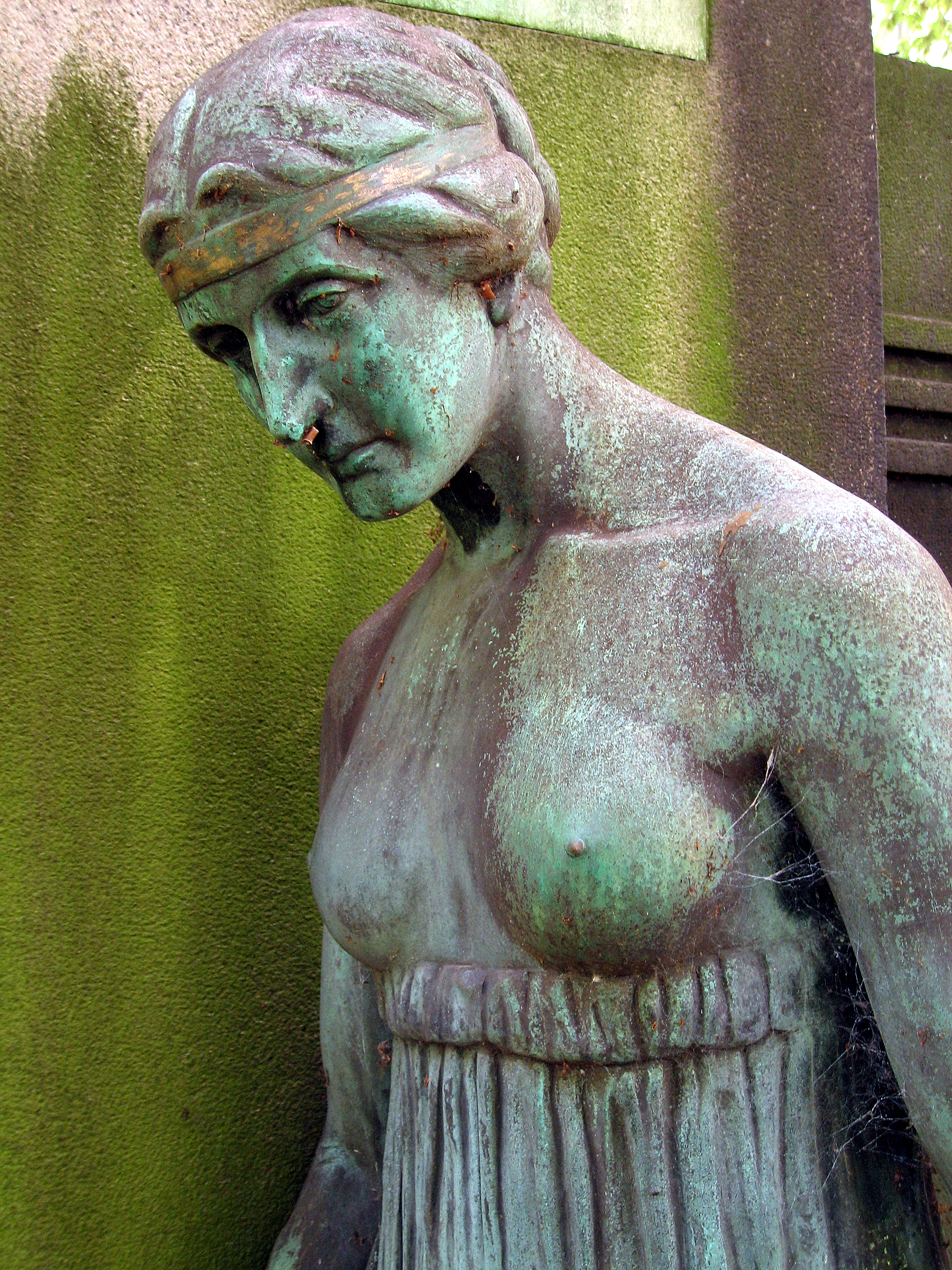 Dortmund, cemetery "Ostfriedhof", sculpture by Benno Elkan